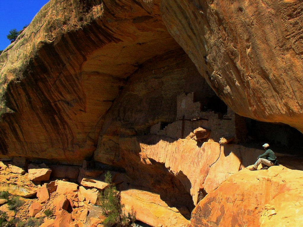 Eagle's Nest, an Ancestral Puebloan cliff dwelling in Ute Mountain Tribal Park, Ute Mountain Ute Reservation, Colorado, USA